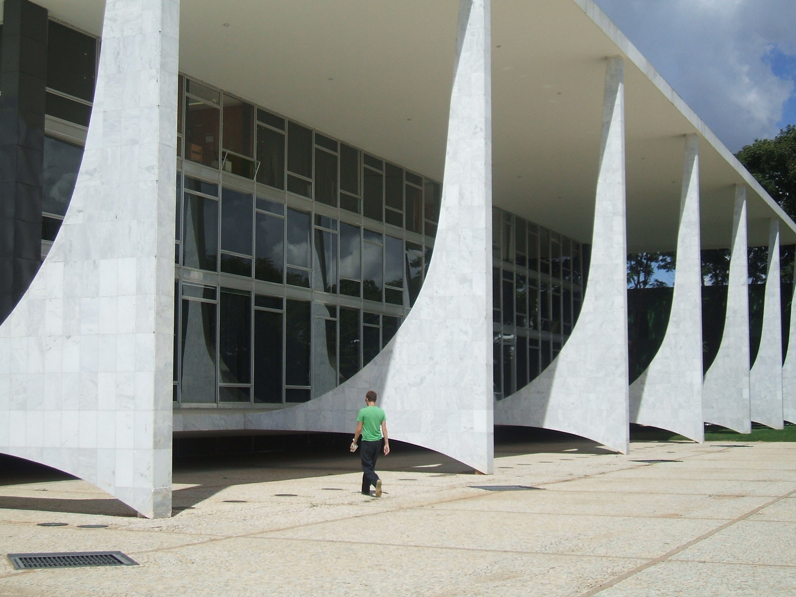 The Supreme Federal Tribunal of Brazil.